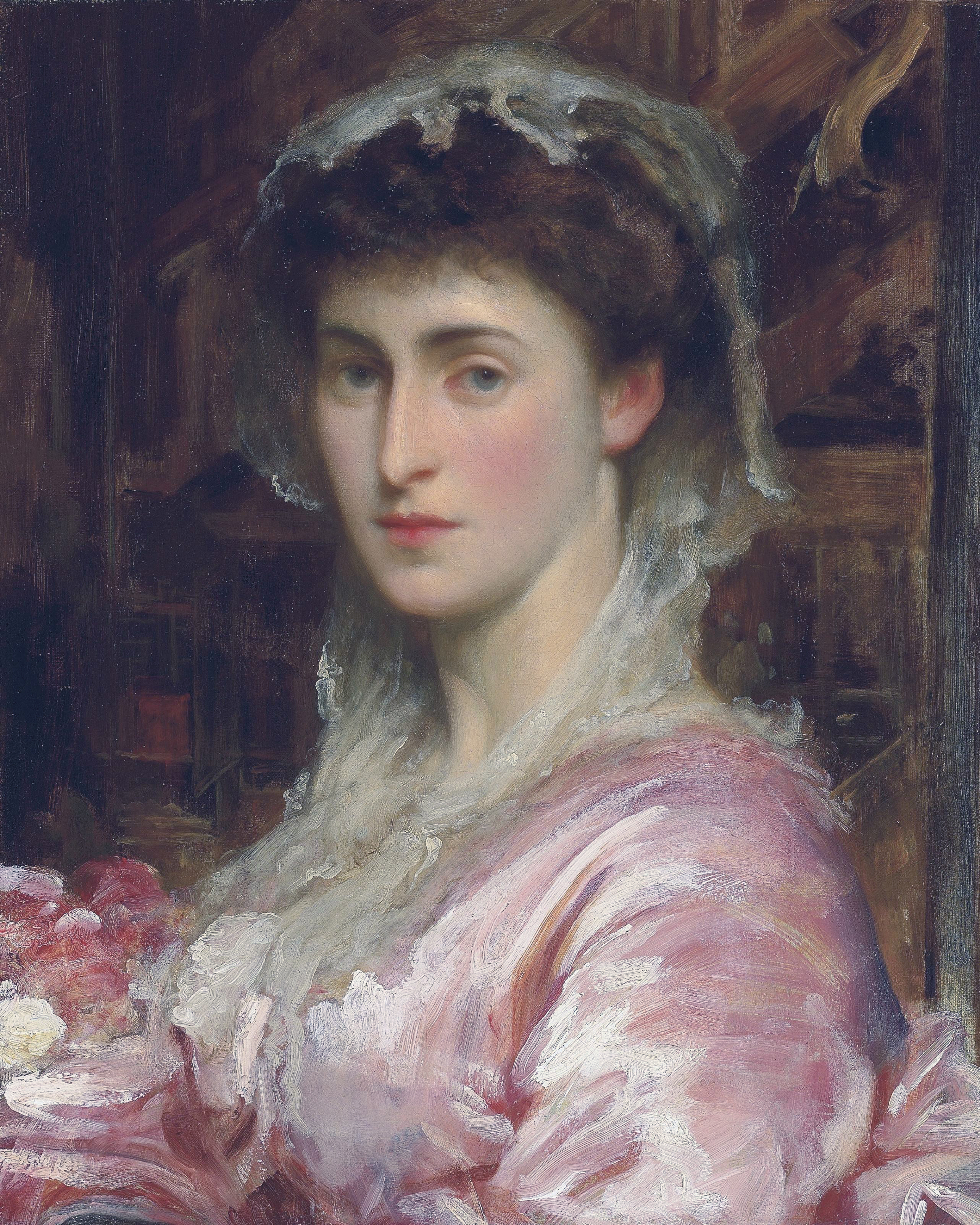 May Sartoris, Mrs Henry Evans Gordon oil on canvas 53.3 x 43.1 cm early 1870s